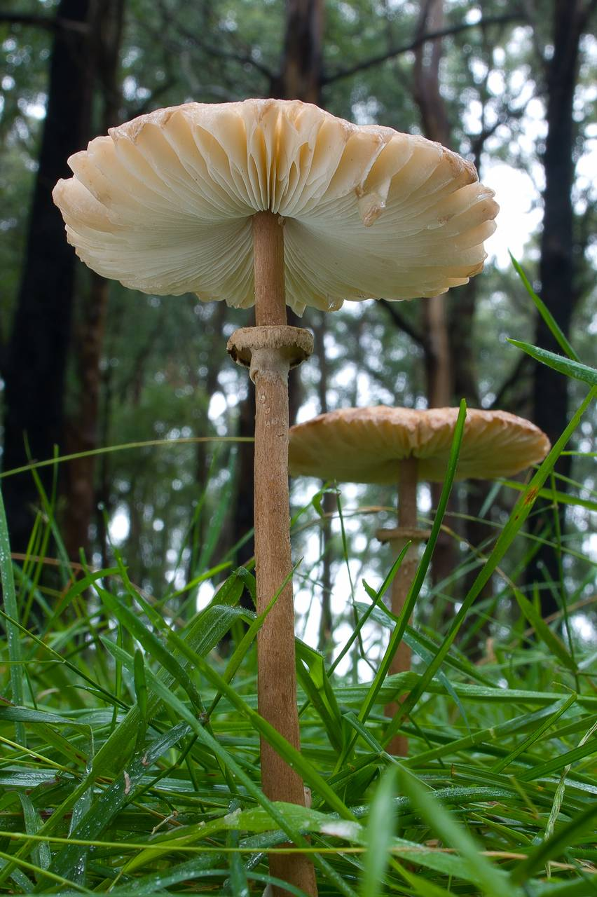 Fruit bodies of the fungus Macrolepiota clelandii. Photographed in Dandenong Ranges National Park, Victoria, Australia.